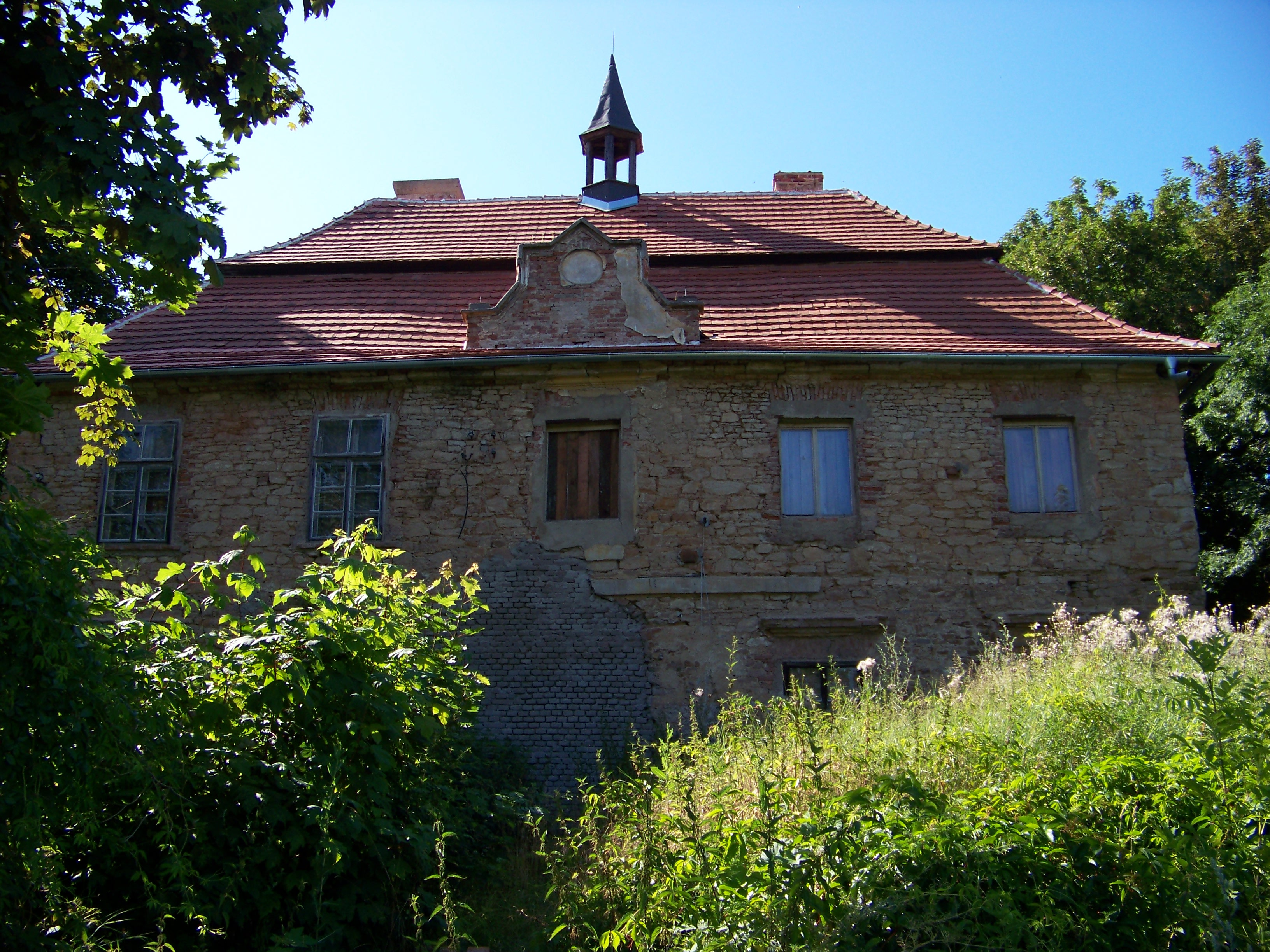 Prague-Horní Počernice. Bártlova 83/1, Čertousy Castle.